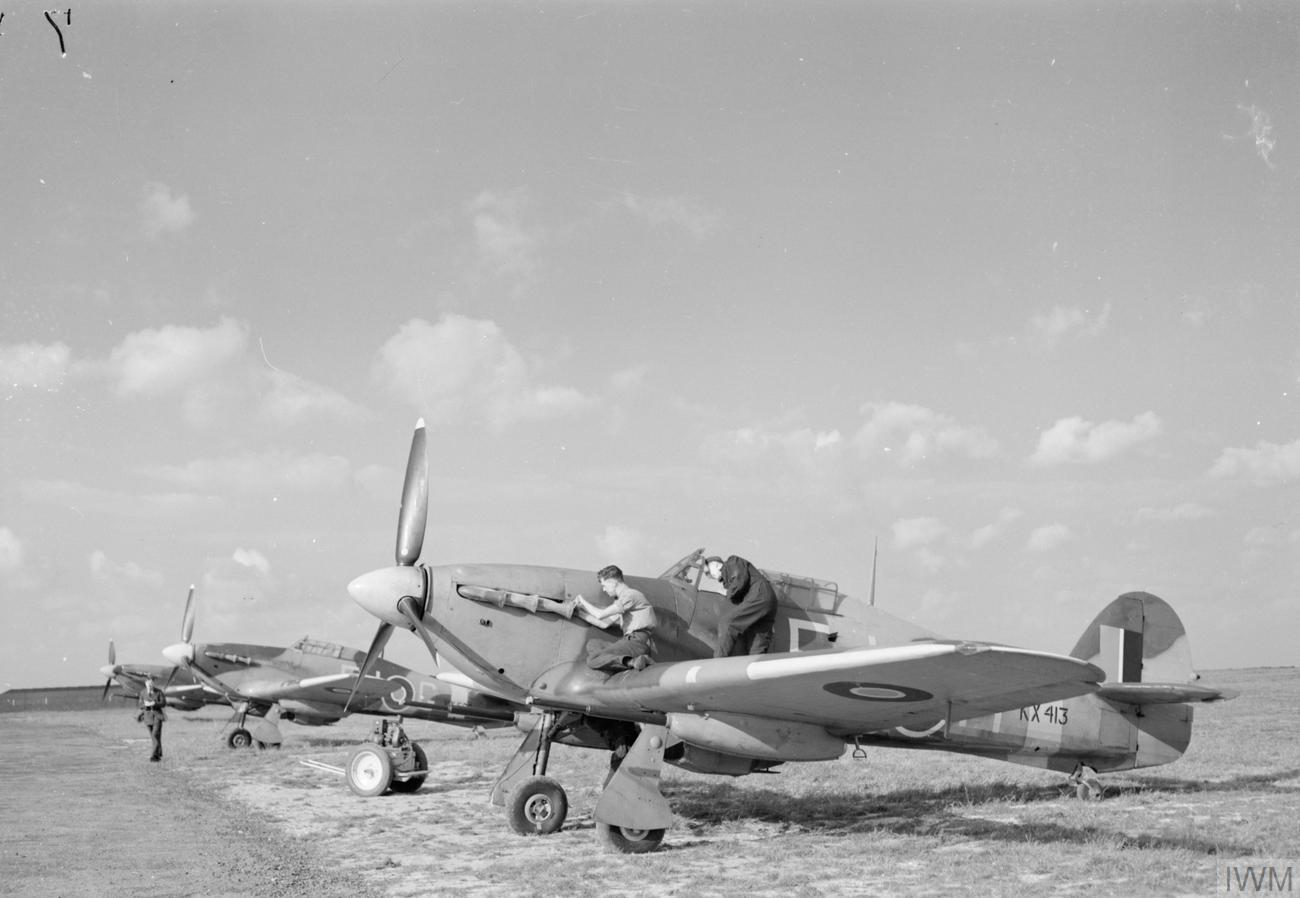 Aircraft of the Royal Air Force 1939-1945- Hawker Hurricane. Three Hurricane Mark IVs (KX413 ‘FJ-H’ nearest) of No. 164 Squadron RAF undergoing servicing, lined up at Middle Wallop, Hampshire. The aircraft are armed with 40mm Vickers S anti-tank guns.